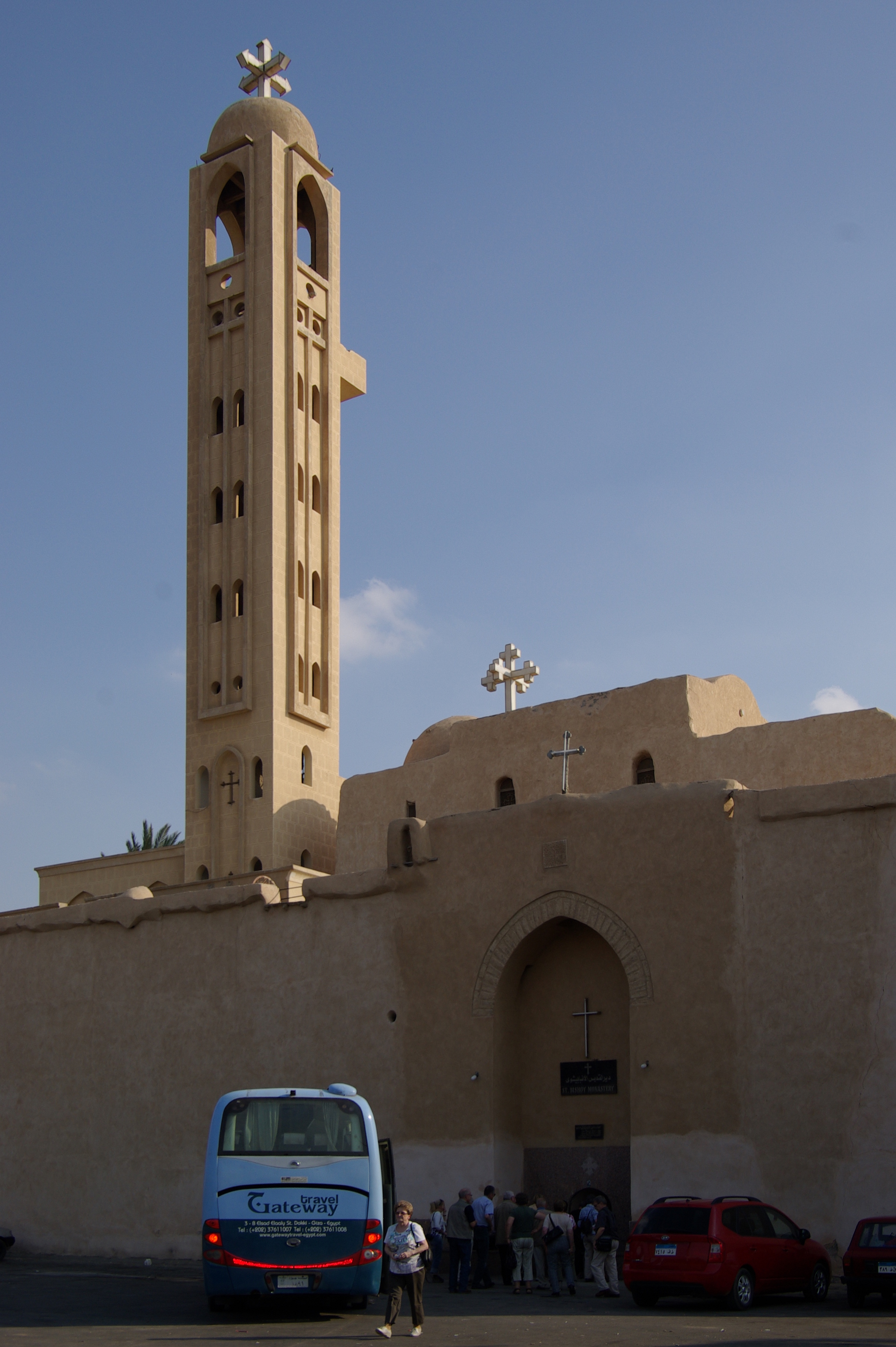 Monastery of Saint Bishoy, Wadi Natrun